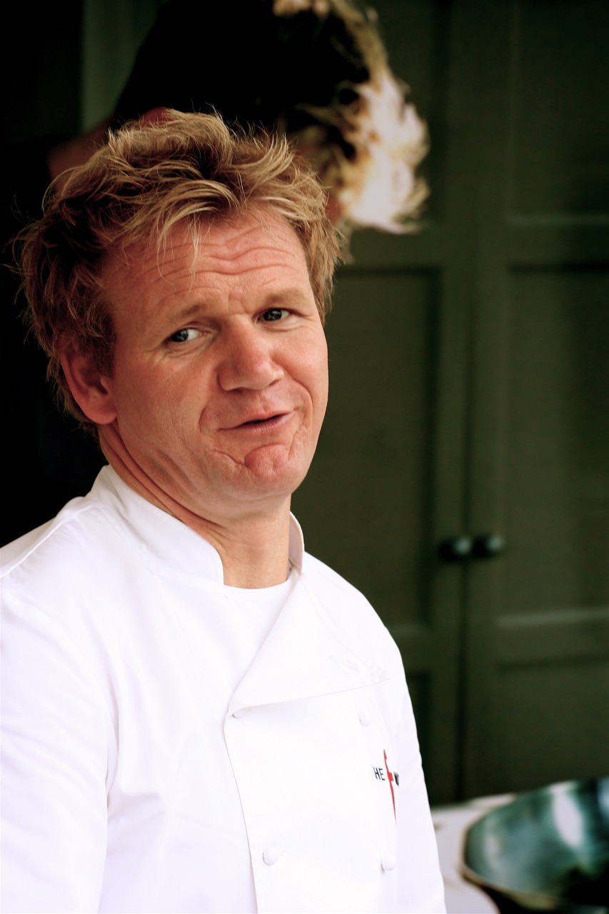 Gordon Ramsay संस्कृतम्: गोवर्धन रामाश्रय